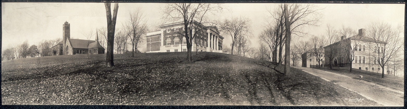 From left to right: Goddard Chapel, Eaton Hall and Miner Hall, c.1910